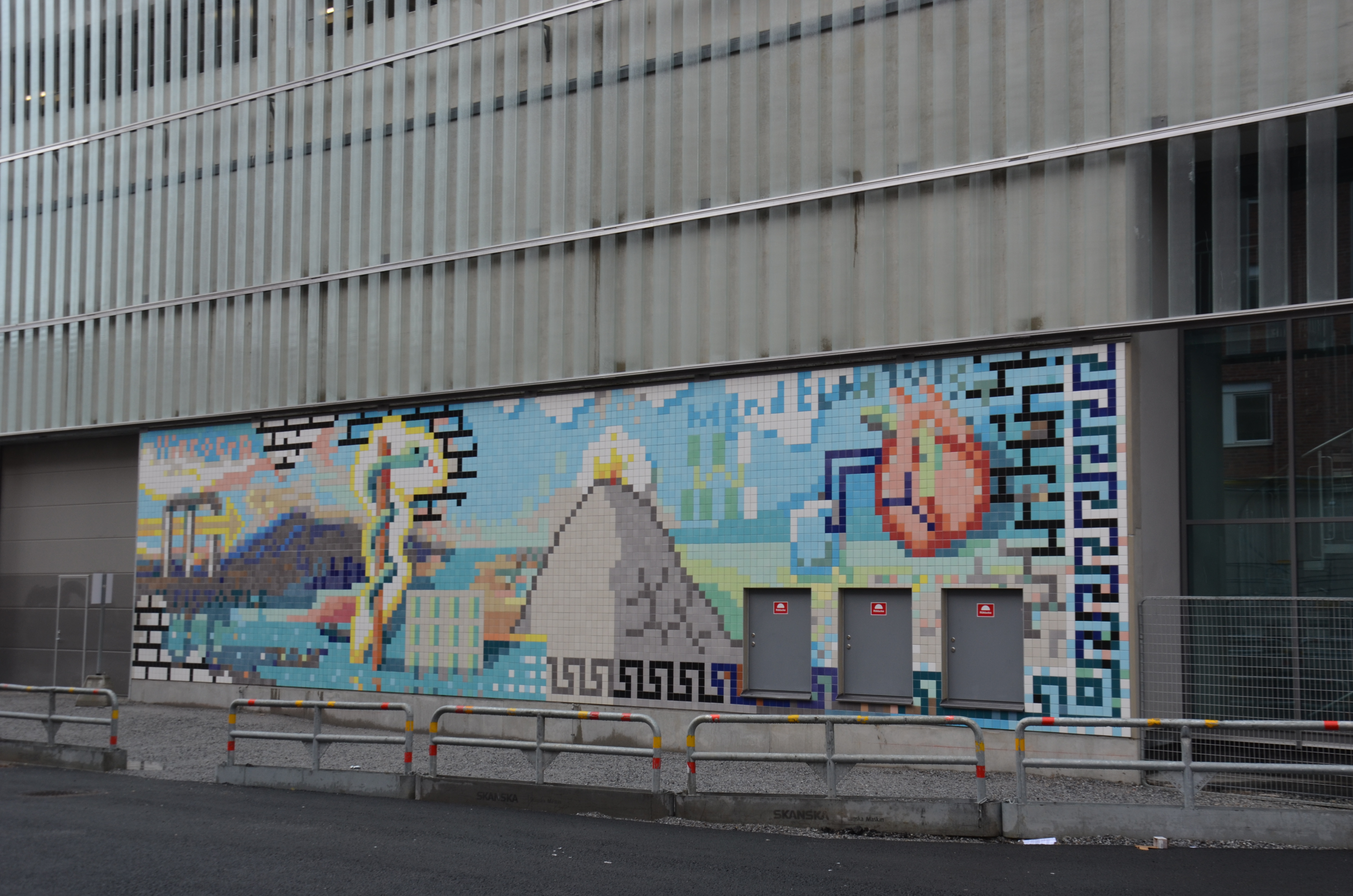 Kristoffer Zetterstrand (1973–) DescriptionSwedish painterDate of birth27 September 1973Location of birthStockholm, SwedenAuthority control : Q981153